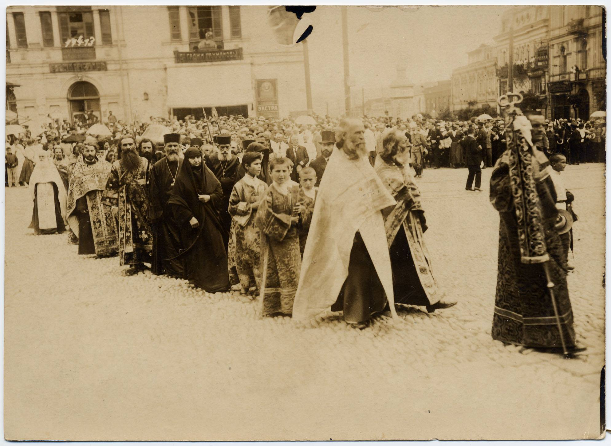 Kirion II Funeral